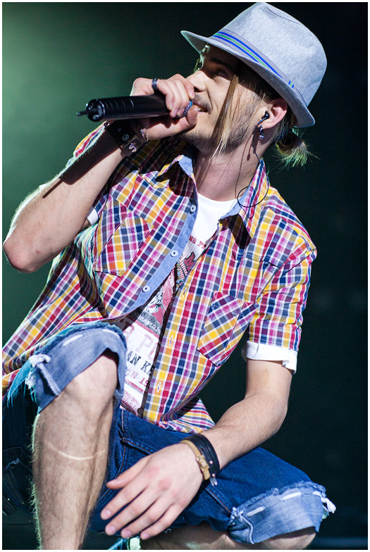 Alex Mataev performing Billionaire